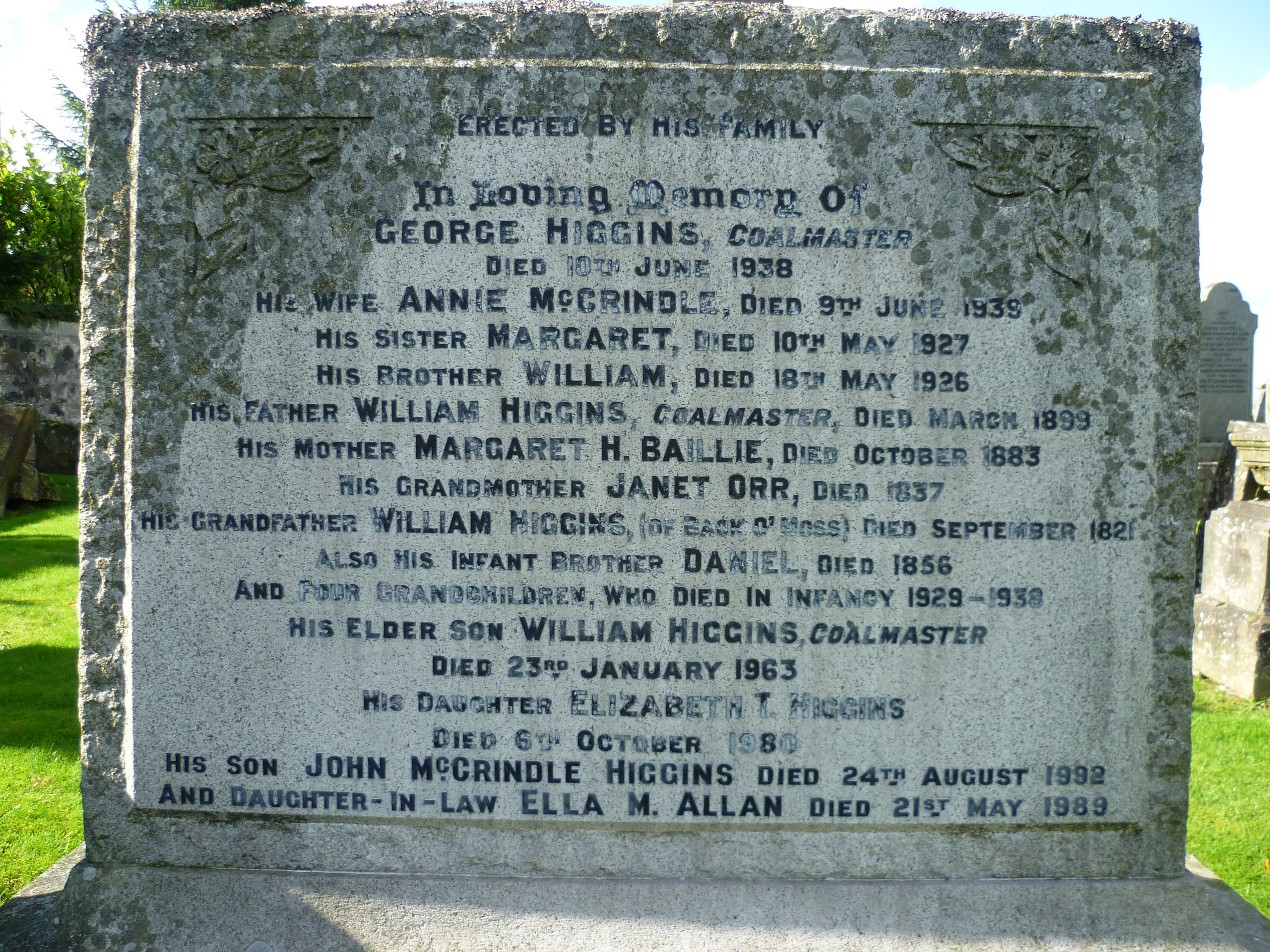 A gravestone which shows the area's close connection with coalmining.